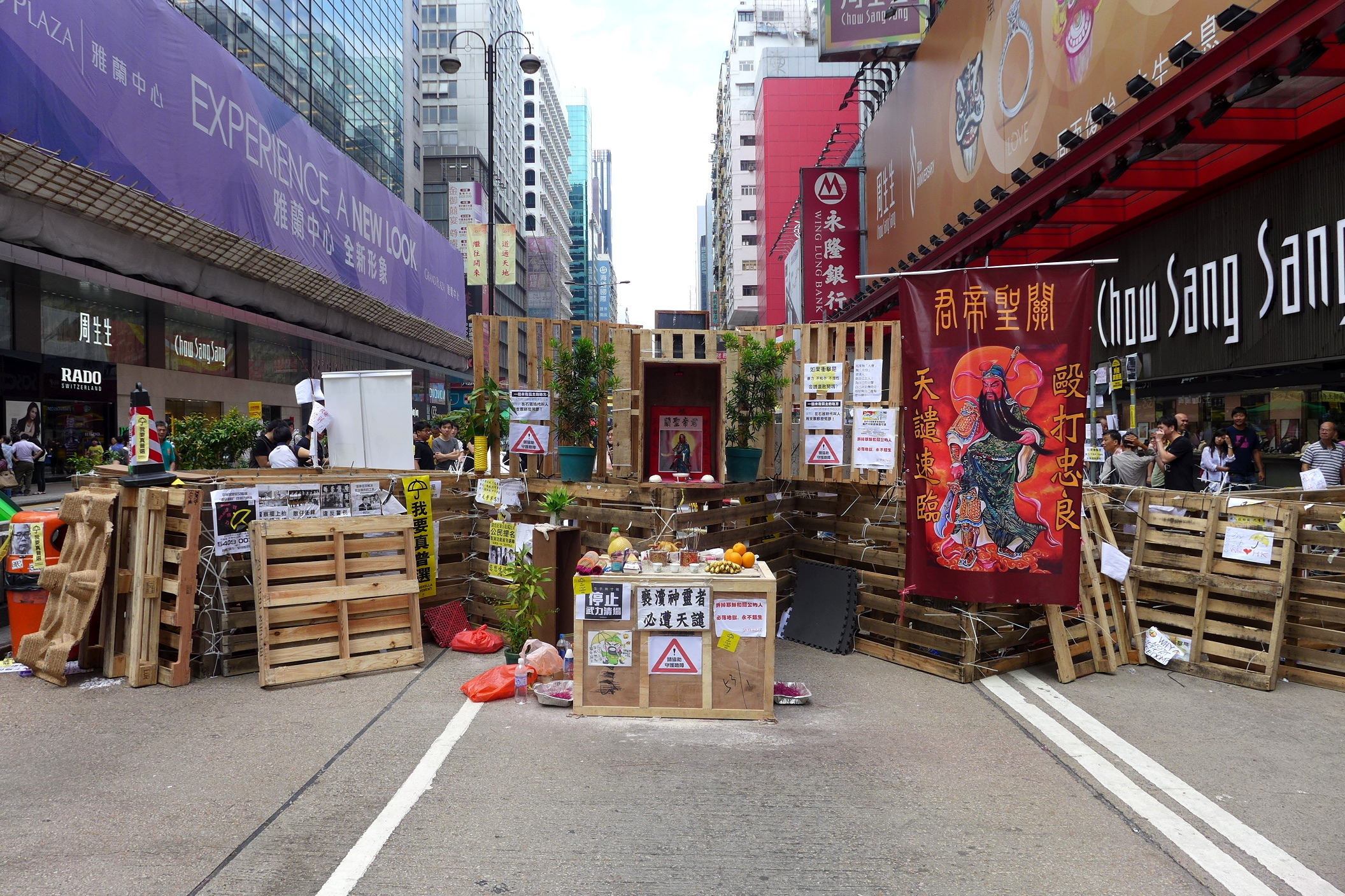 Mong Kok 2nd Generation Temple in Nathan Road